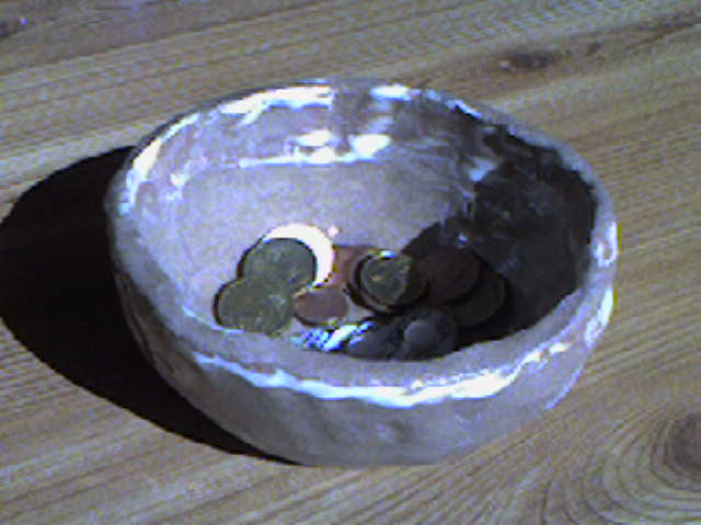 Coin tray in ceramics